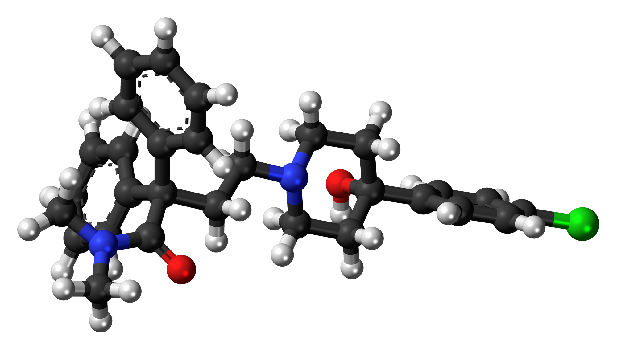 Ball-and-stick model of the loperamide molecule, a drug used to treat diarrhea. Color code: Carbon, C: black Hydrogen, H: white Oxygen, O: red Nitrogen, N: blue Chlorine, Cl: green